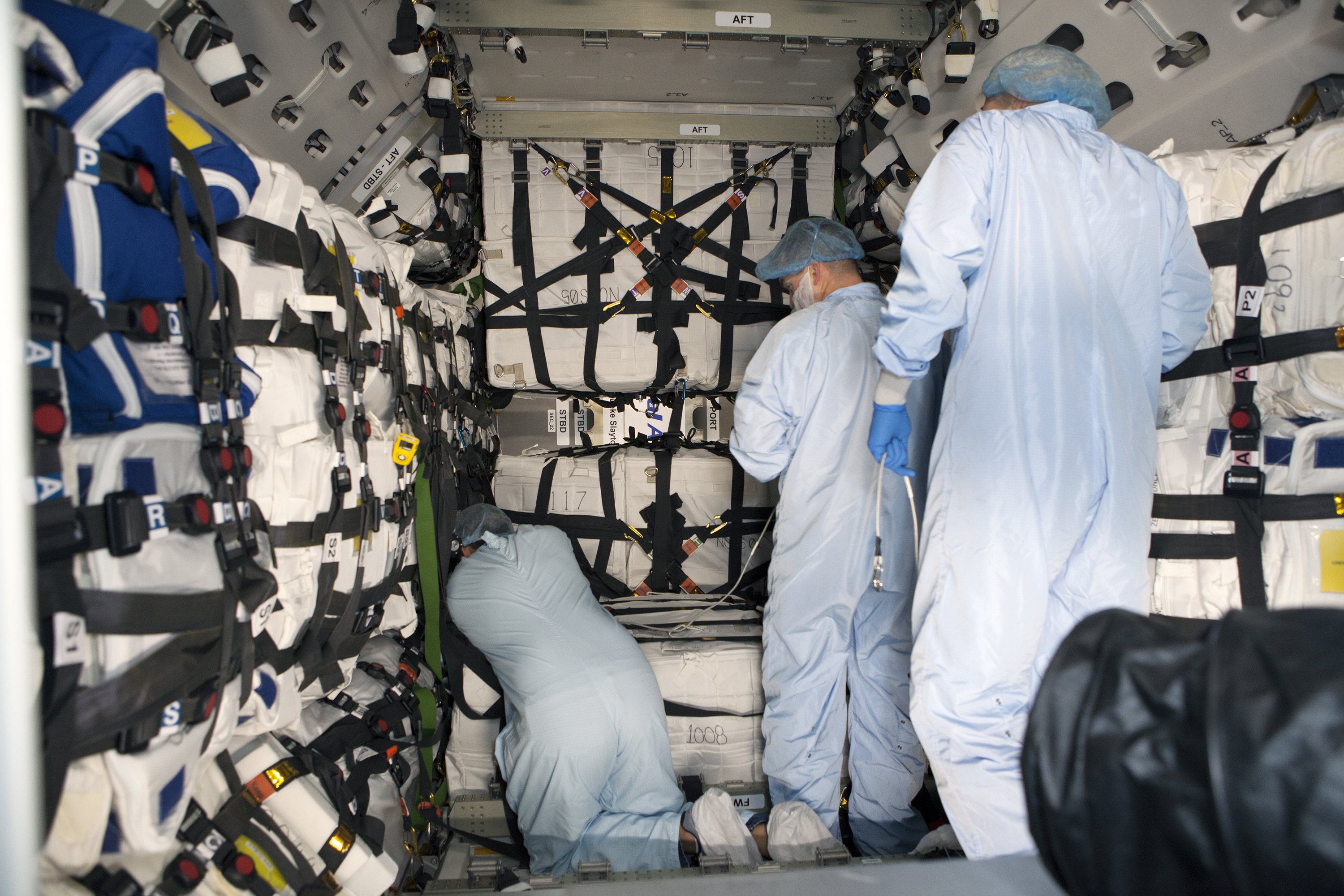 Inside the high bay in the Space Station Processing Facility at NASA's Kennedy Space Center in Florida, technicians stow a container of supplies inside the Orbital ATK Cygnus pressurized cargo module. The Cygnus module is undergoing prelaunch processing at Kennedy before launch atop a United Launch Alliance Atlas V rocket on a commercial resupply mission to the International Space Station.